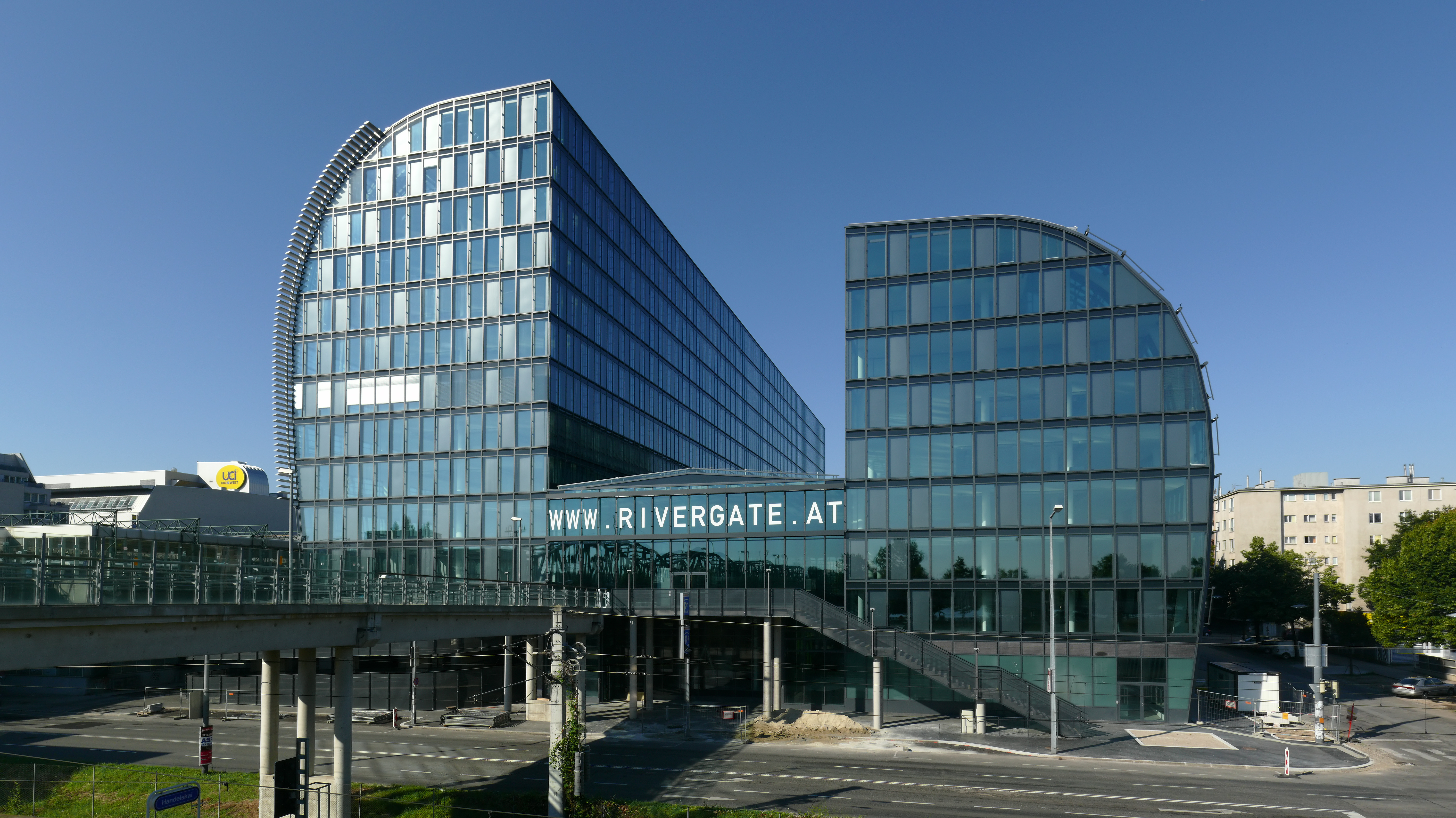 Office Building Rivergate in Vienna Brigittenau